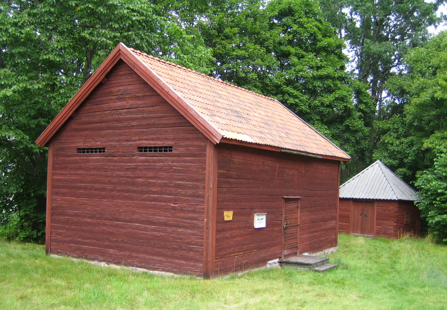 Jail and outhouse at the court house of Ishult, Småland